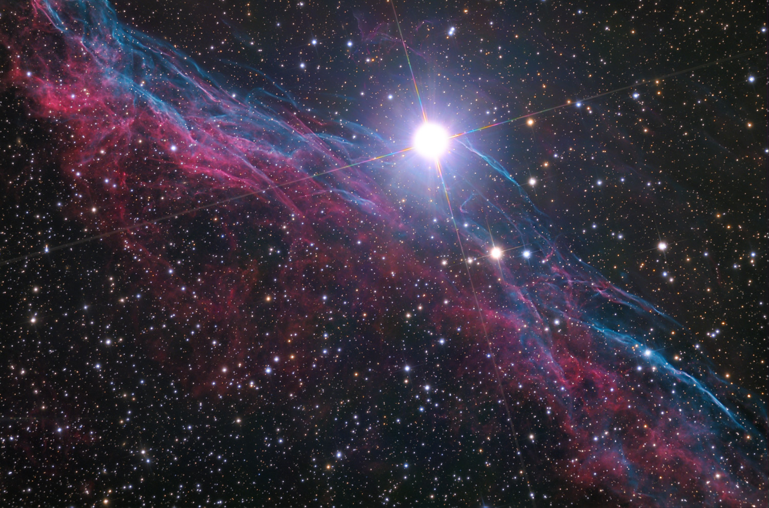 Optics 24-inch RC Optical Systems Telescope Camera SBIG STL11000 CCD Camera Filters Custom Scientific Dates July 29th, 2008 Location Mount Lemmon SkyCenter Exposure LRGB = 180:50:50:50 minutes Acquisition TheSky (Software Bisque), Maxim DL/CCD (Cyanogen) Processing CCDStack (CCDWare), Mira (MiraMetrics), Maxim DL (Cyanogen), Photoshop CS3 (Adobe) Credit Line & Copyright Adam Block/Mount Lemmon SkyCenter/University of Arizona